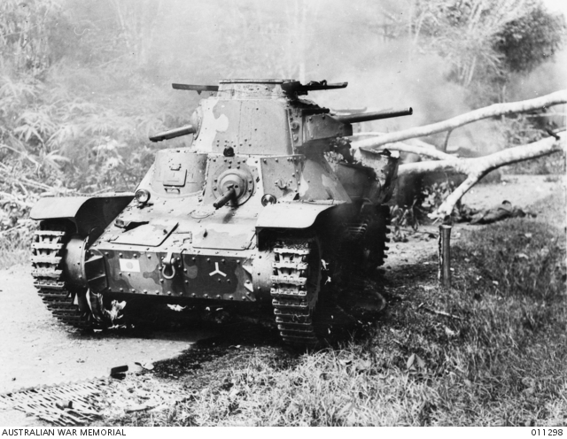 Japanese Type 95 Ha-Go light tank halted by Australian 2 pounder gun anti-tank fire in the Battle of Muar, Malaya, markings on front.